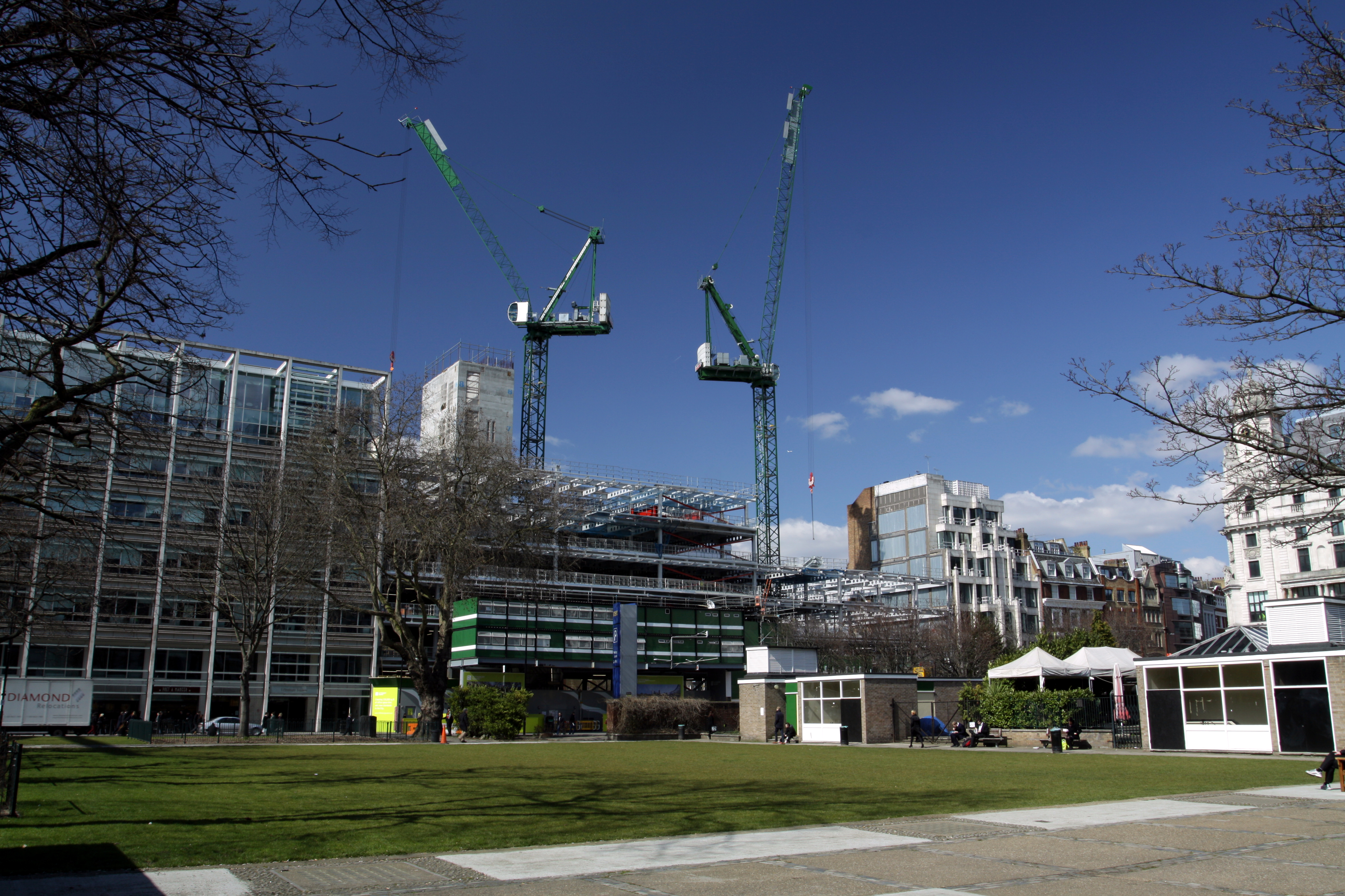 Finsbury Square in London, Great Britain